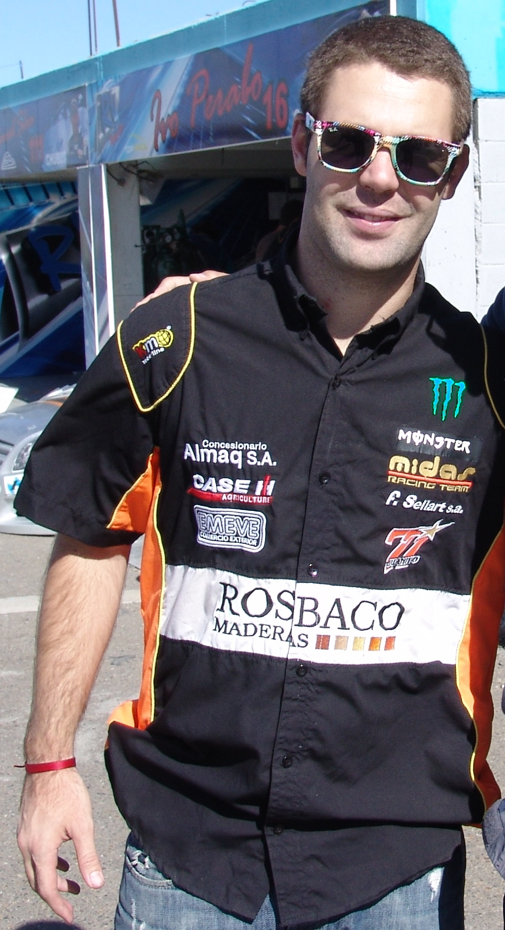 Racecar driver Juan Cruz Álvarez at Autódromo General San Martín, Comodoro Rivadavia.